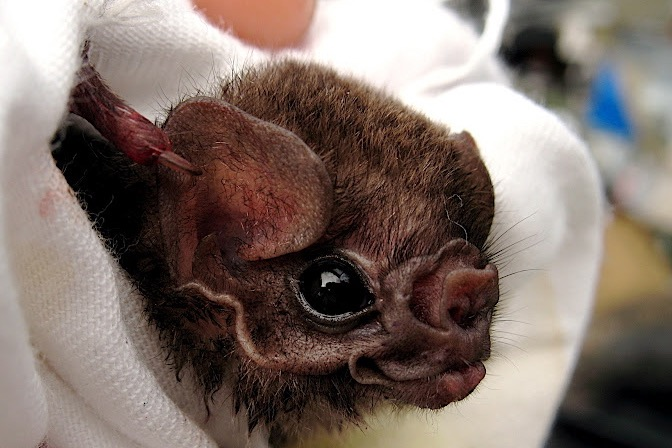 Hairy-legged vampire bat, Diphylla ecaudata, captured in Mexico